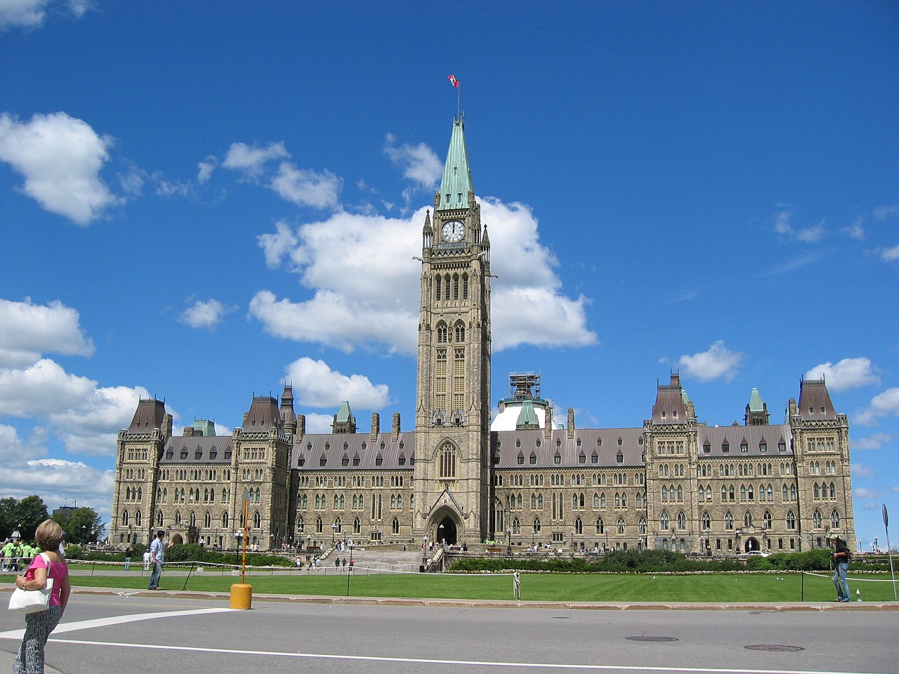 Canadian Parliament Buildings, Ottawa, Canada, Shot 2005 Jul 30 by Steven W. Dengler. Resolution: 1280 x 960 Contact steven[at]dengler[point]net for larger resolutions of this photo, or to inquire about commercial use.